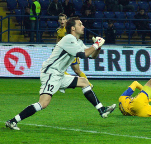 Isli Hidi, Albanian footballer, during the game for Kryvbas Kryvyi Rih